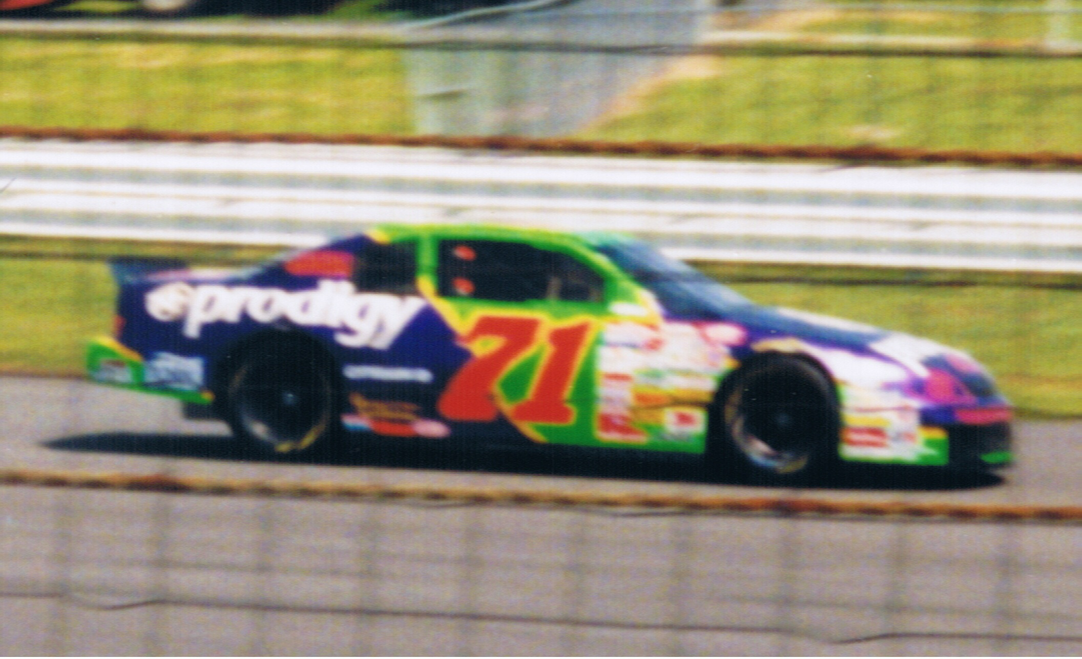 Dave Marcis in the Prodigy Internet #71 Chevy Monte Carlo at Pocono Raceway, June 1996